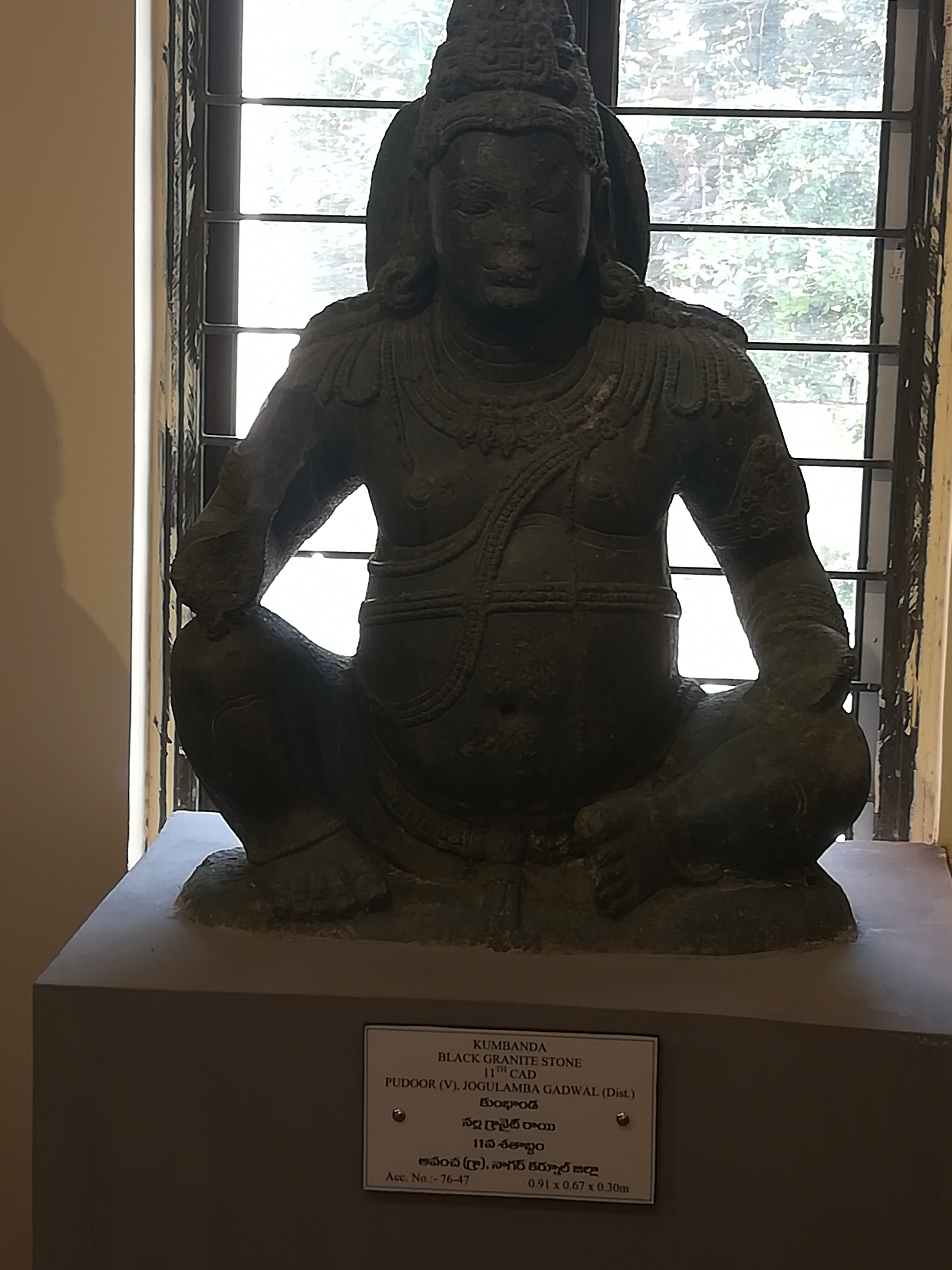 Kumbhanda black granite stone